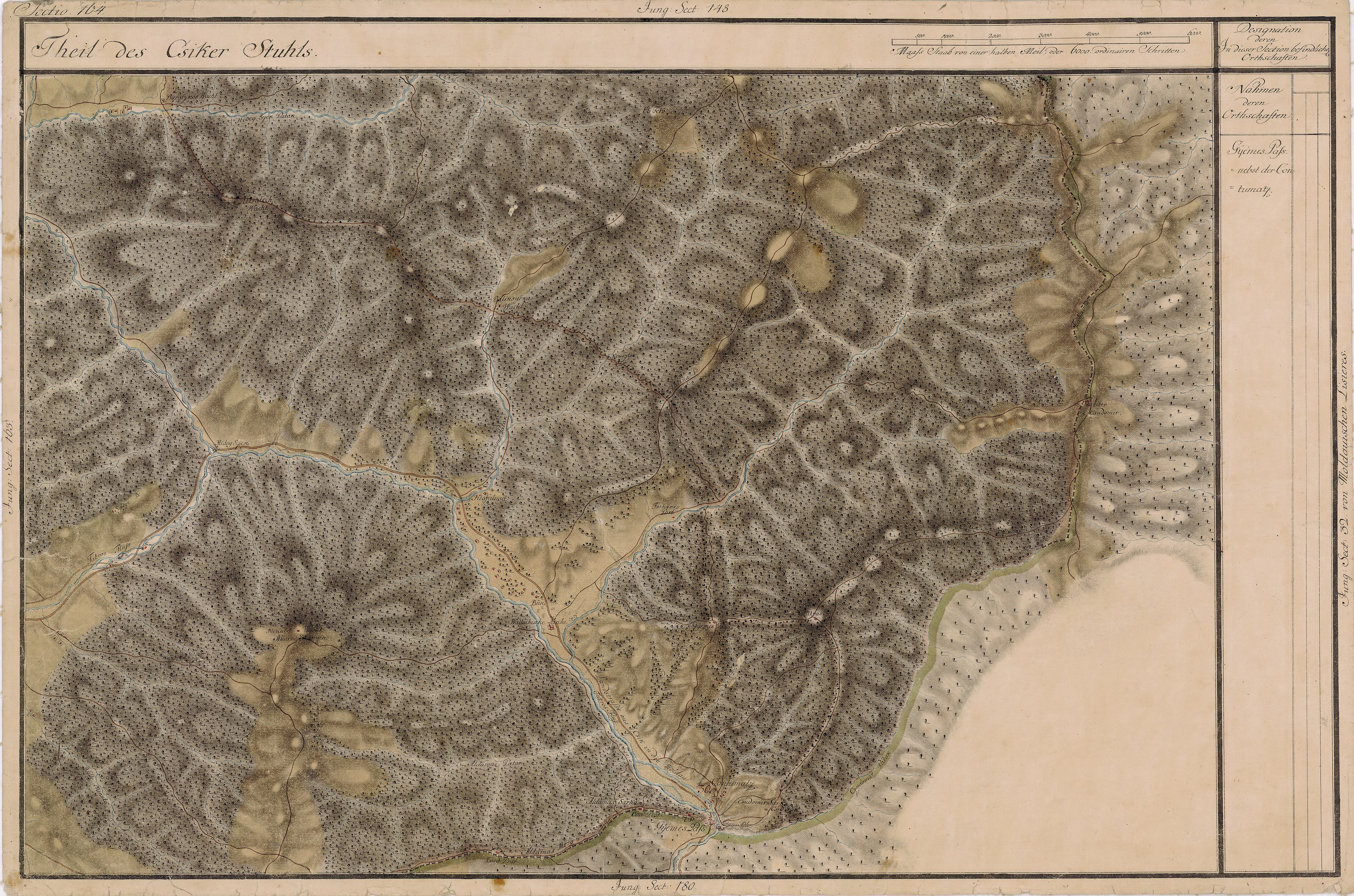 Grand Duchy of Transylvania, 1769-1773. Josephinische Landaufnahme pg.164